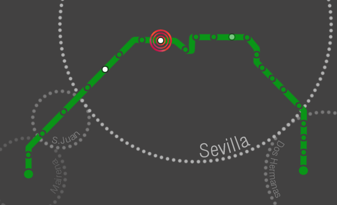 Location